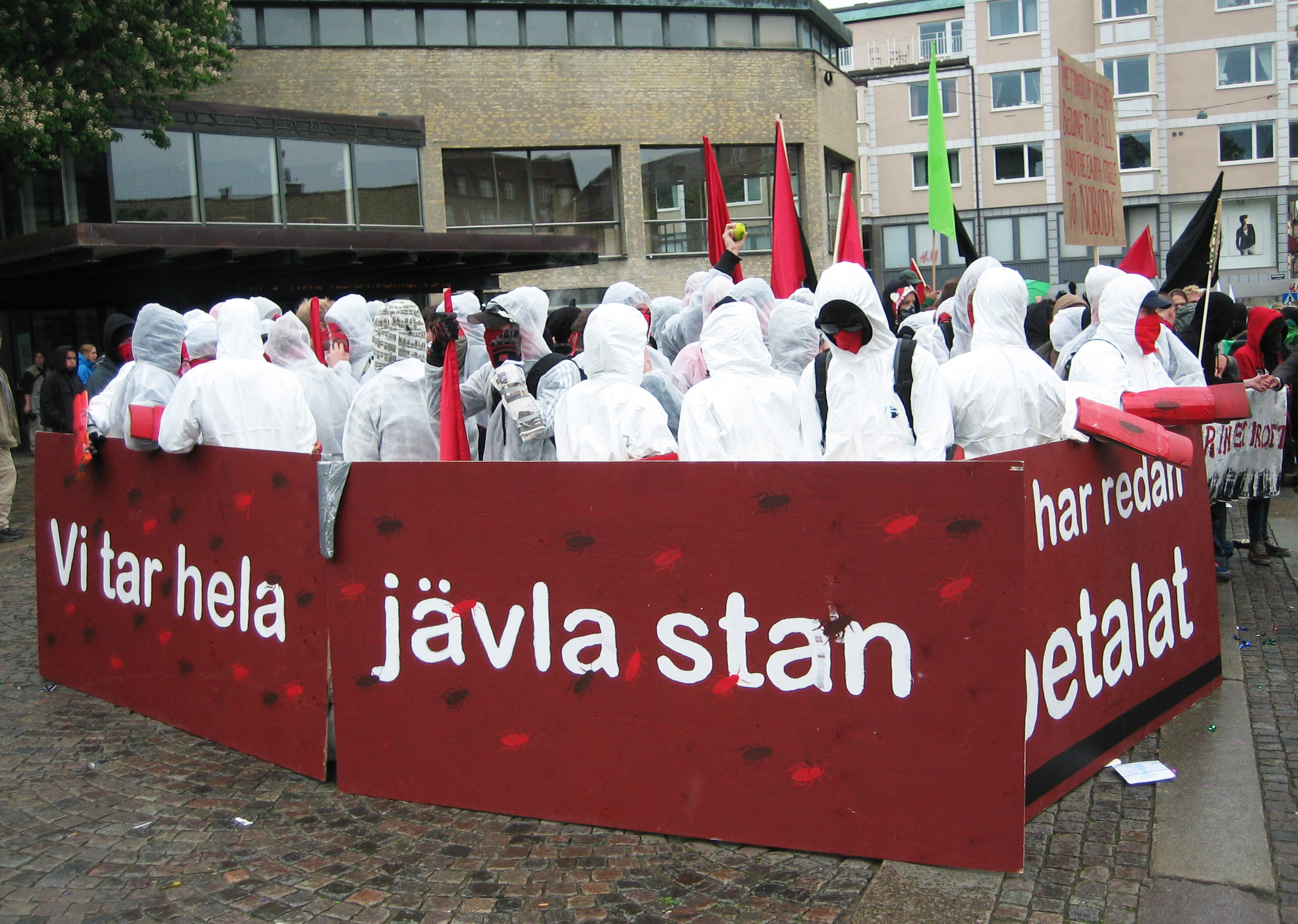 Photo of the demonstration at the "Ockupationsfestival" in Lund, Sweden 2009-05-16.